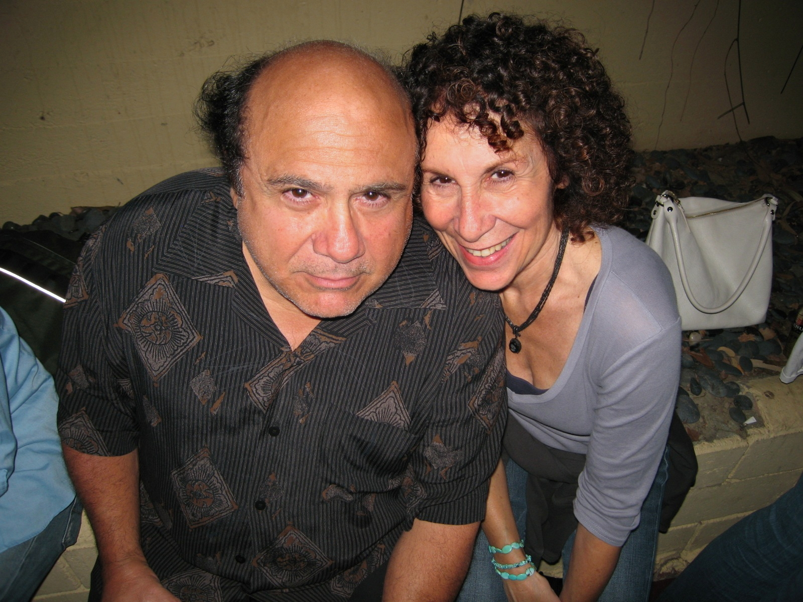 Danny DeVito (left) and Rhea Perlman in 2006